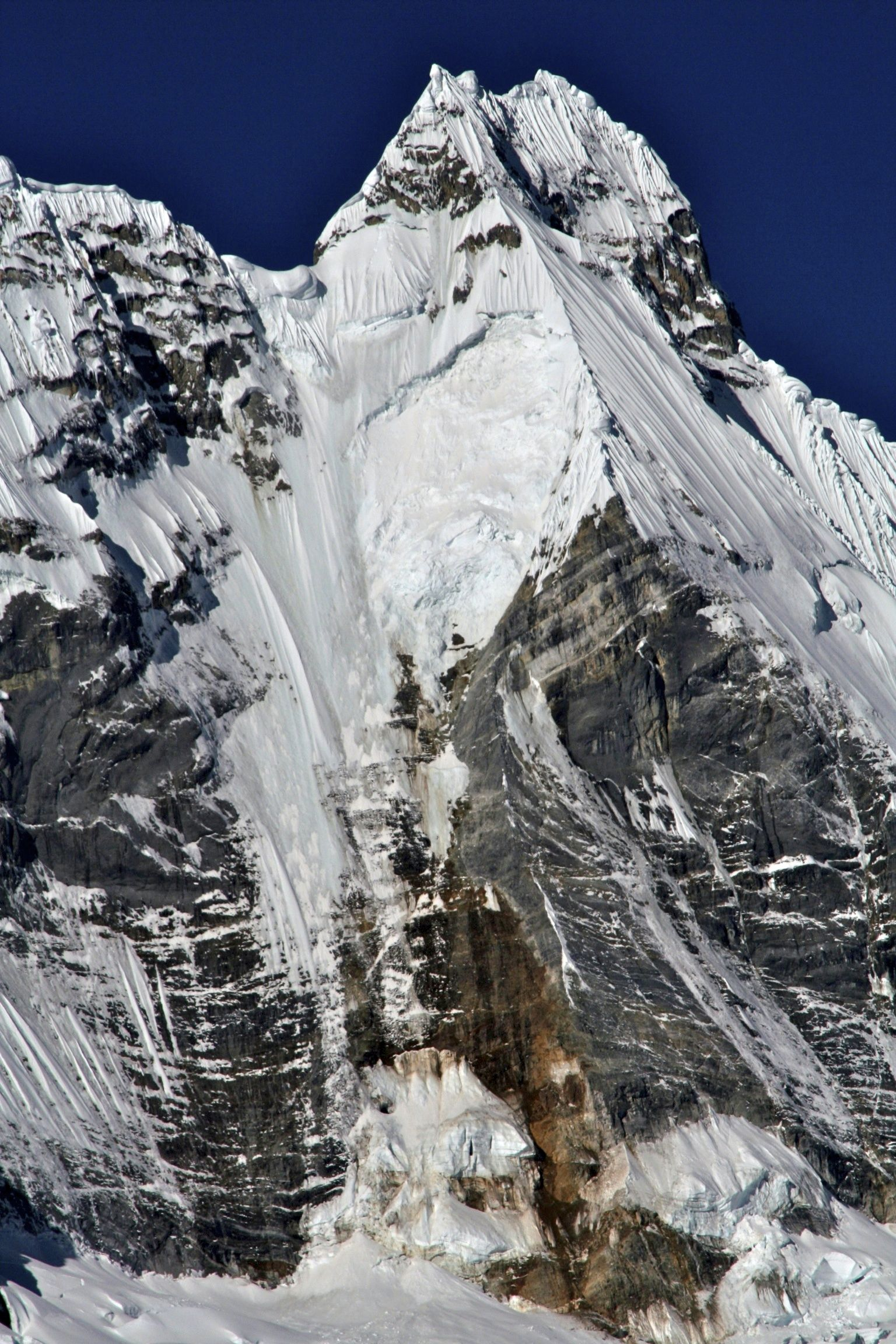 The west face of Jirishanca taken from Jauacocha, Cordillera Huayhuash